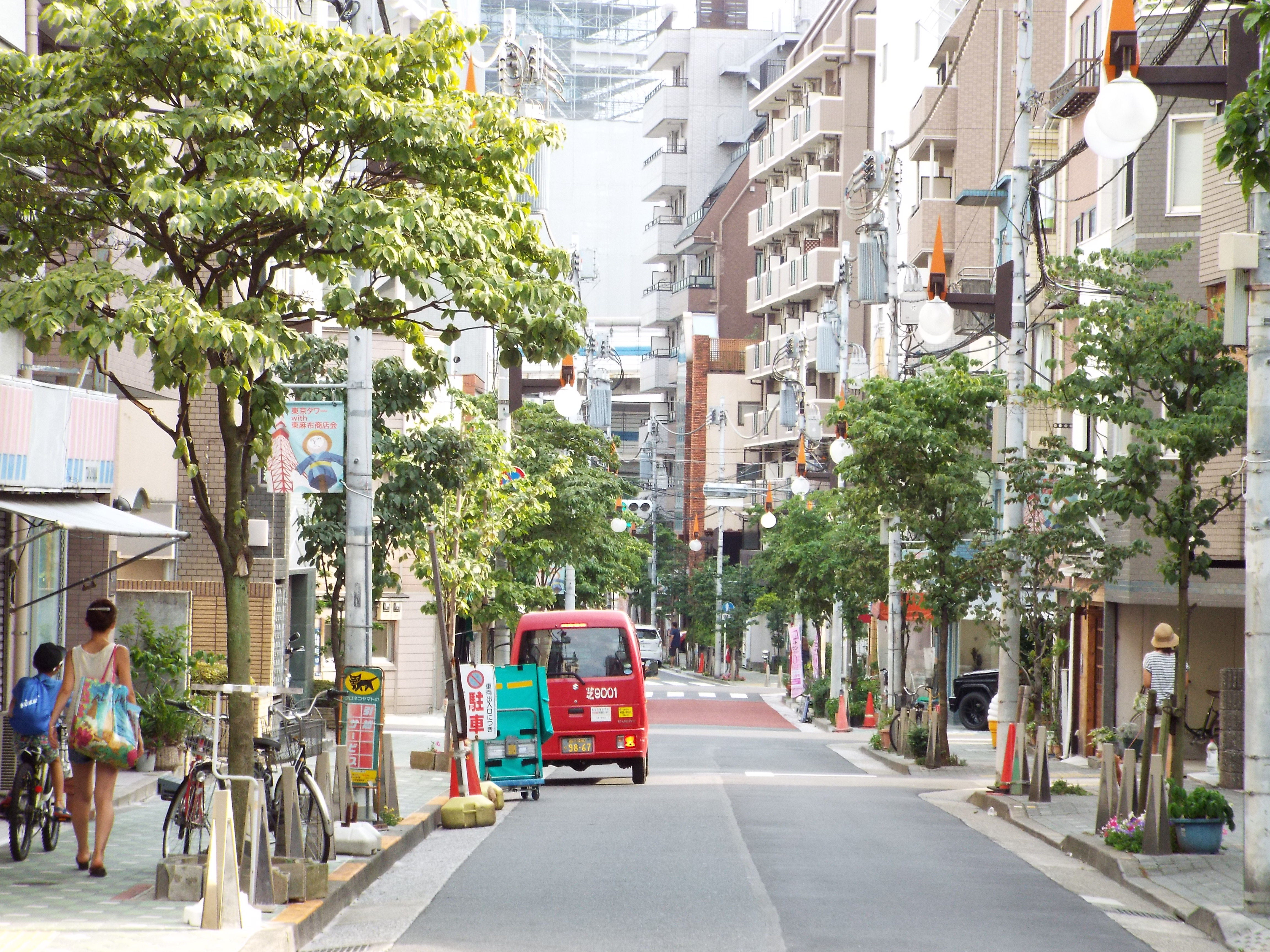 Higashi-azabu main street